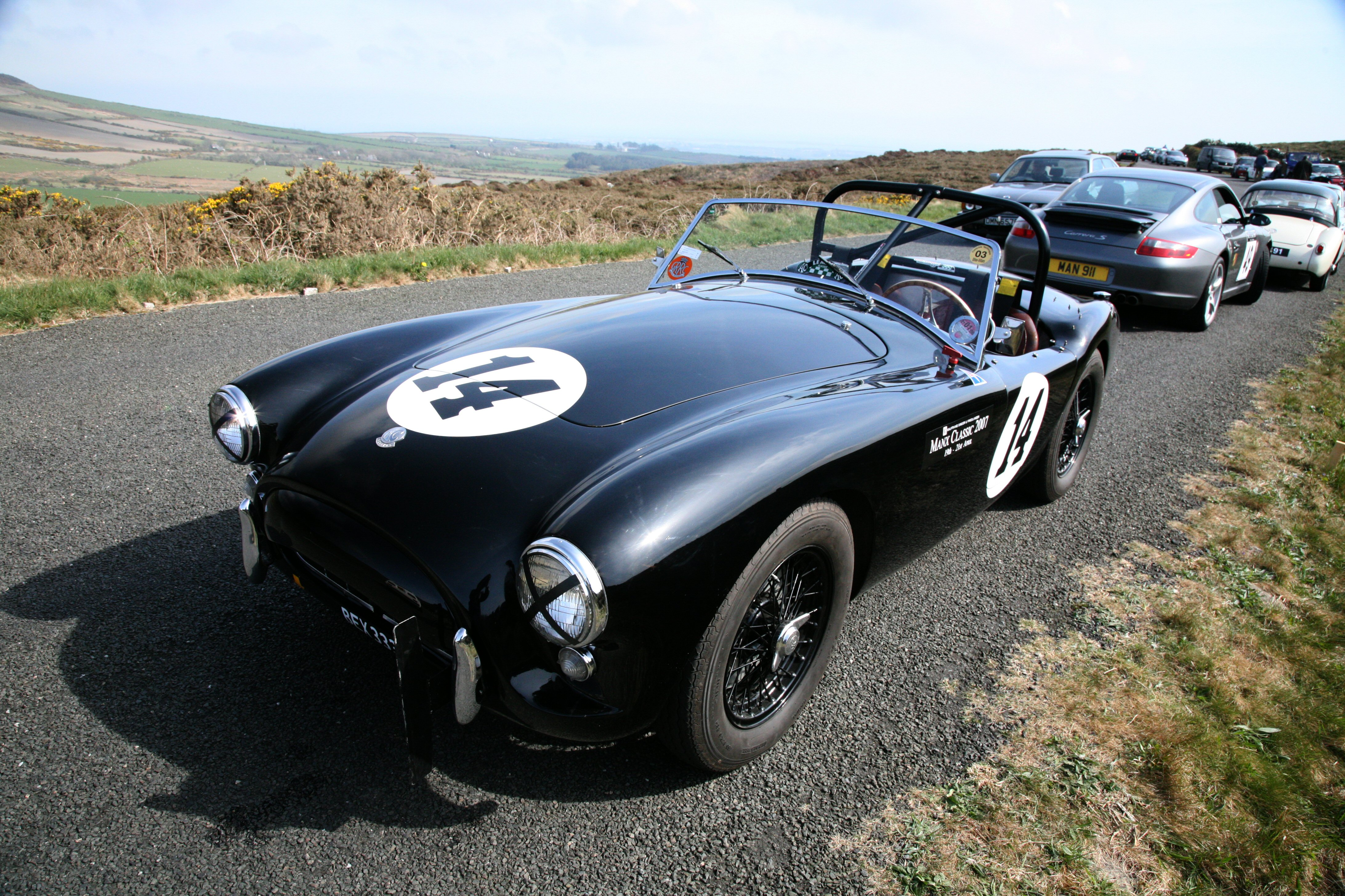 (original: think it's a 1968 AC Cobra, my brother just emailed me it from the Isle of Man.) Correction: It is a 1957 AC Ace Bristol with 2,0-litre Bristol inline-6, the predecessor of the AC Cobra (BEX 333 is a rather well known car in the AC Owners scene with a long racing tradition)AC Cobra